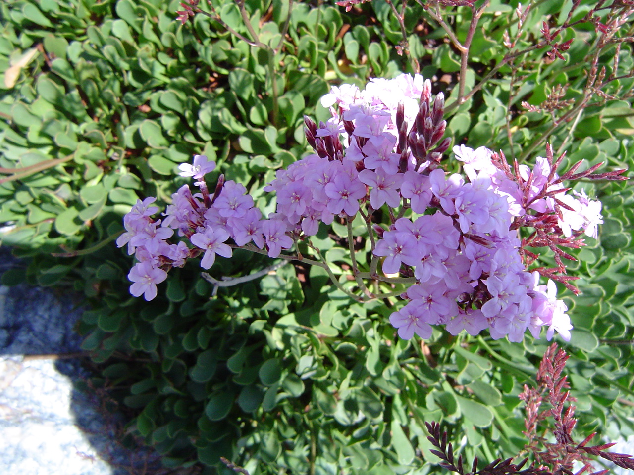 Limonium emarginatum, Ceuta (Spain)